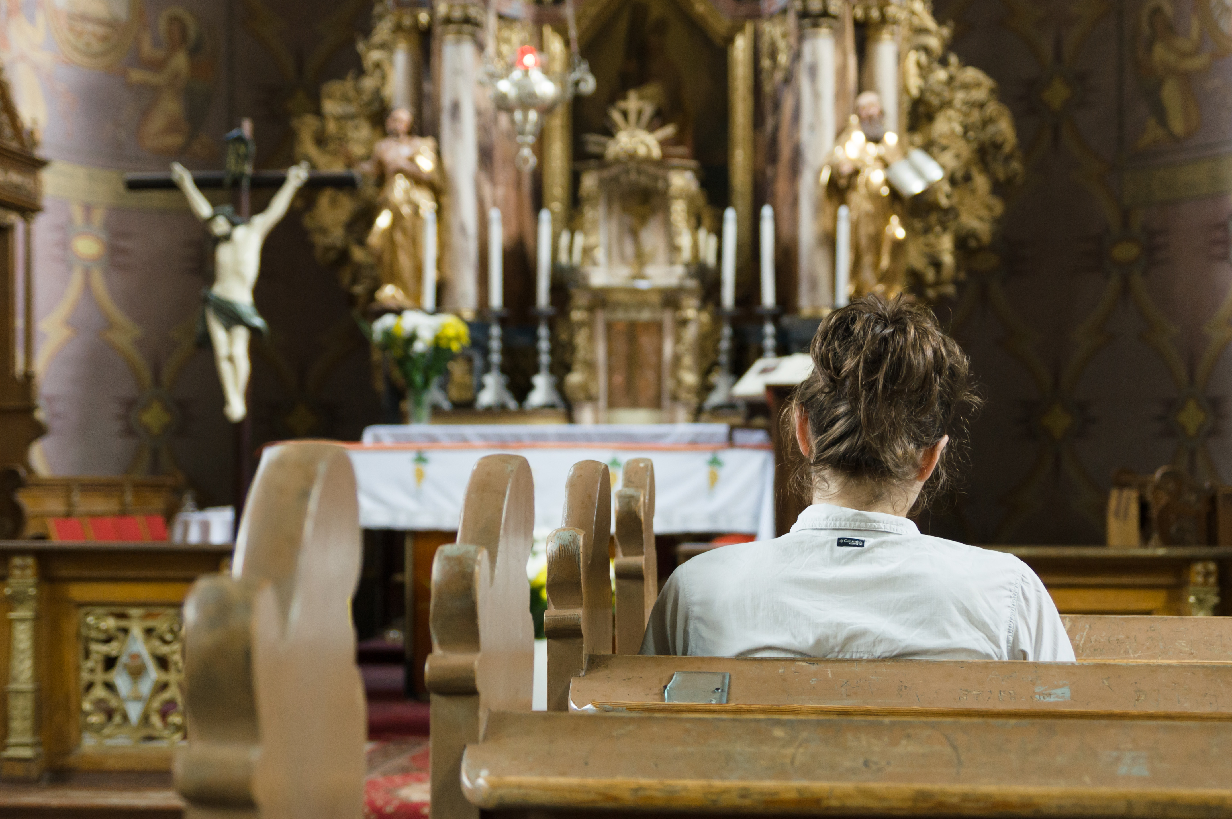 Praying women in Saint Andrew church in Ramsowo.